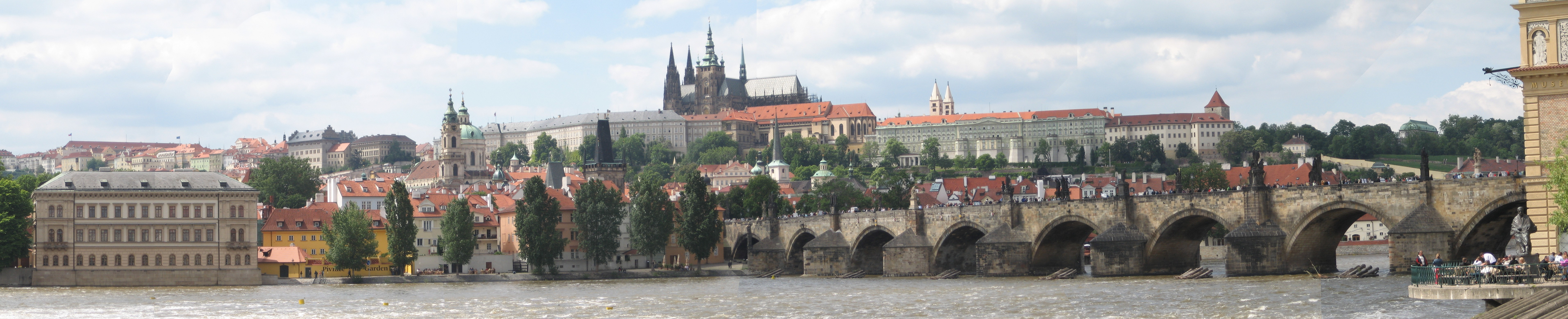 Panorama of Prague Castle, Charles' bridge and Mala Strana, compiled with Hugin from different photos.